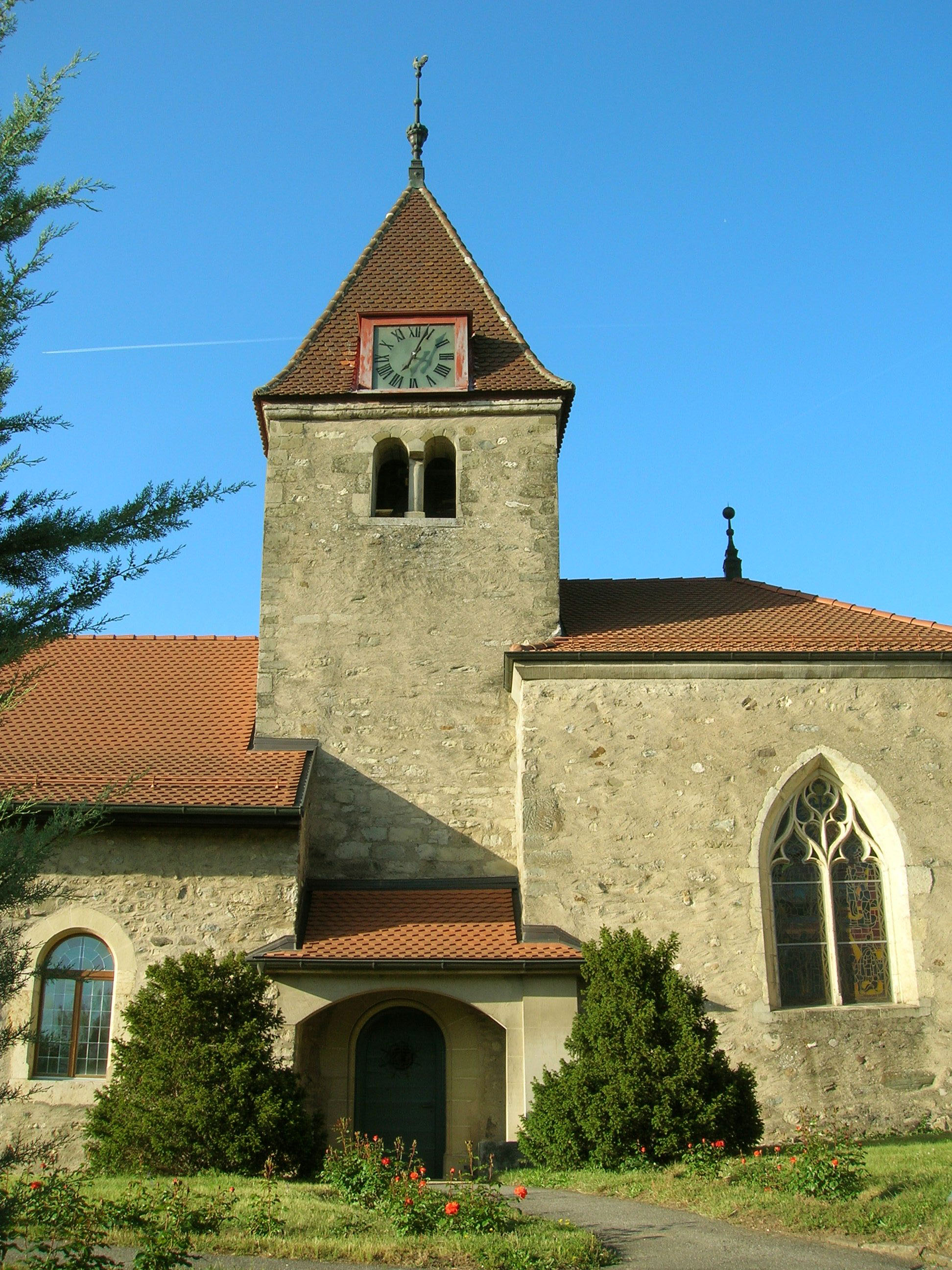 Church of Bavois